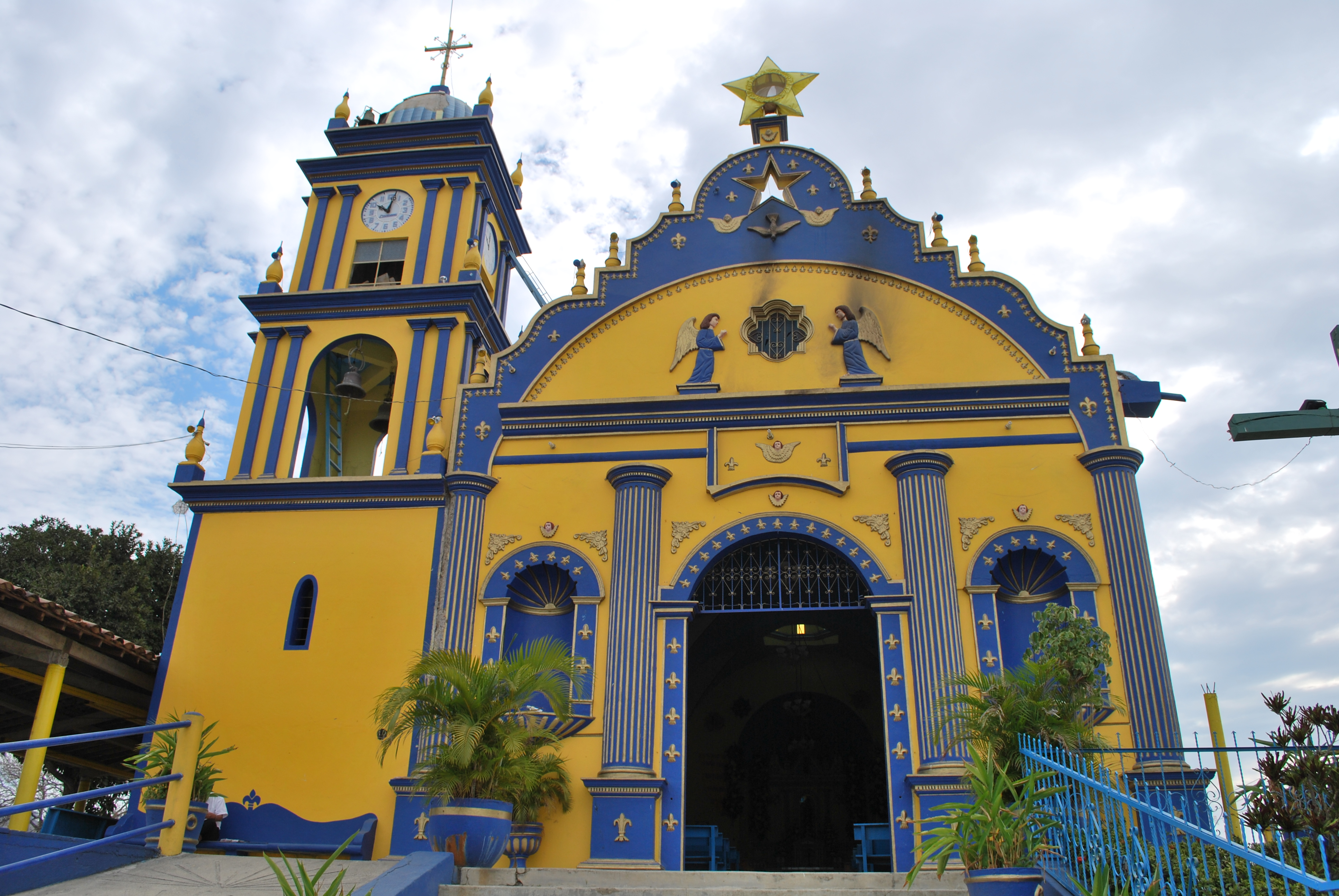 View of the San Nicolas de Tolentino Church in Ometepec, Guerrero